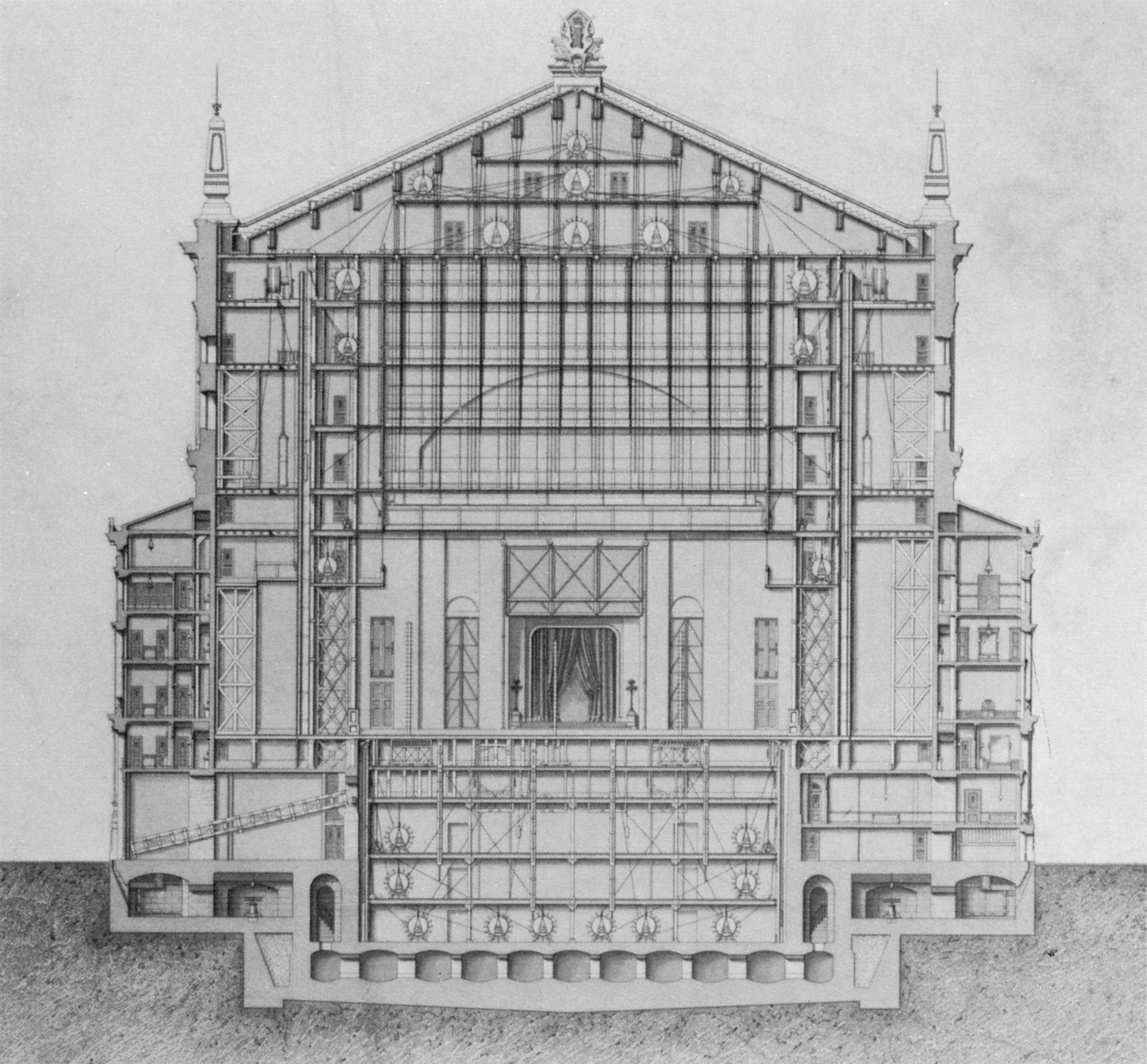 Transverse section at the stage house of the Paris Opera's Palais Garnier (looking north)